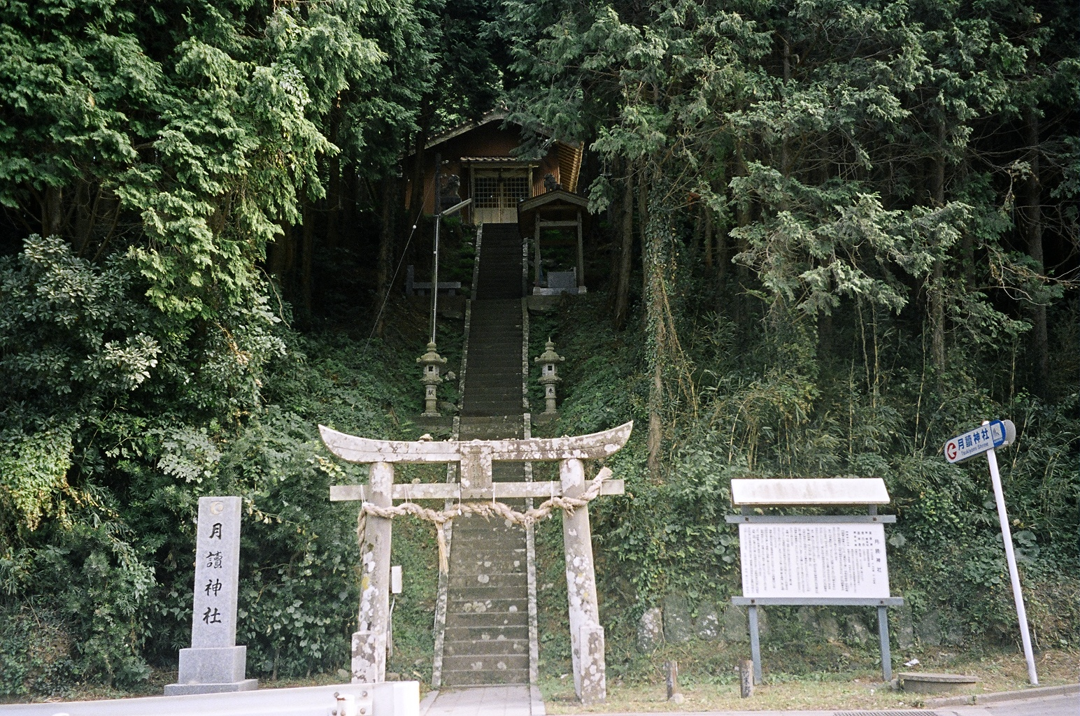 Iki Tsukiyomi shrine, Iki city, Nagasaki, Japan.